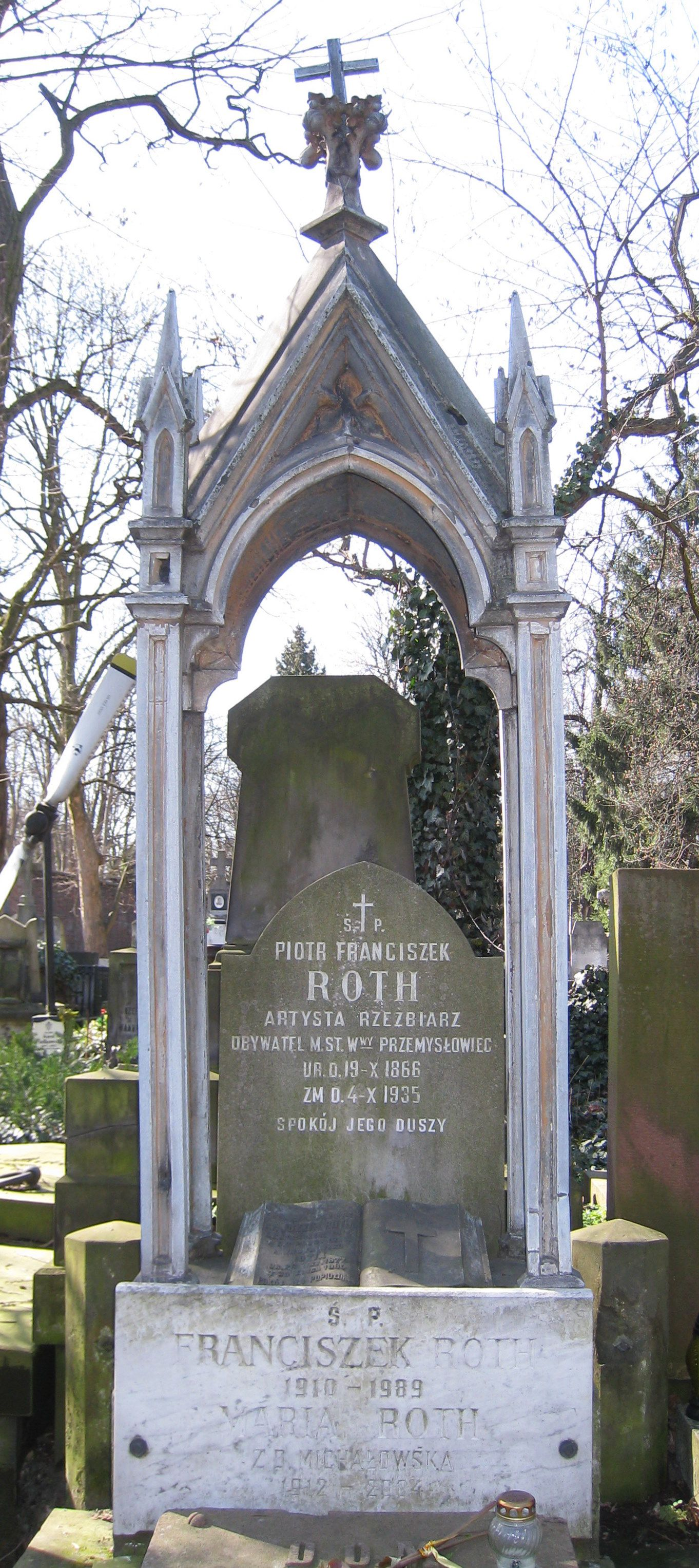 Monument to the Roth family in the Cmentarz Powązkowski in Warsaw